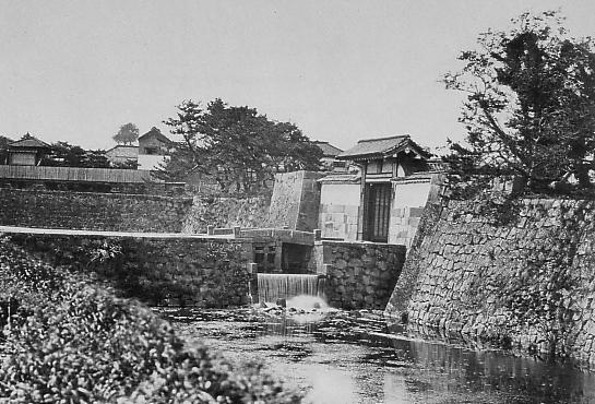 Tora-no-Mon(now defunct gate)